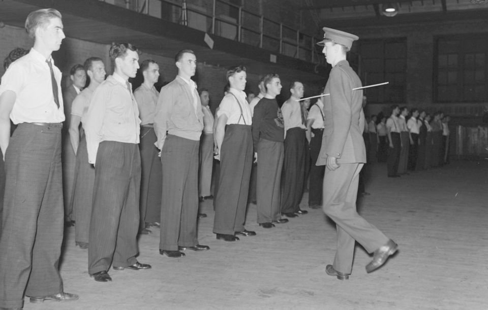 An officer learns to turn a group of recruits in civilian clothes. They are in the barracks of the "Canadian Grenadier Guards" regiment located at 4167, Esplanade Avenue in Montreal.